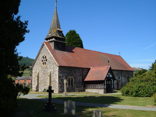 Church of St Garmon , Llanfechain There should be a golden cockerel weathervane but it's out of shot!